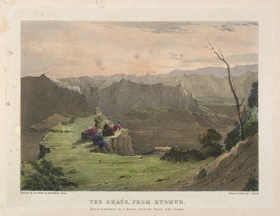 Coloured lithograph of 'The Ghats from Ryghur' by J.H. Lynch from an original drawing by Baron Adam Friedel (fl.1833). Plate 6 of 'Eight Most Splendid Views of India, sketched by an Officer in the Indian Army' printed by Baron A Friedel in London in 1833. This collection provides eight views of forts situated in the modern state of Maharashtra. In 1818, the British gained control of this area from the Marathas, a Hindu kingdom was established by Shivaji (r.1645-1680). The summits of the Western Ghats, a range of hills that separate the western coast from the central plains of India, were well suited for such defensive structures.